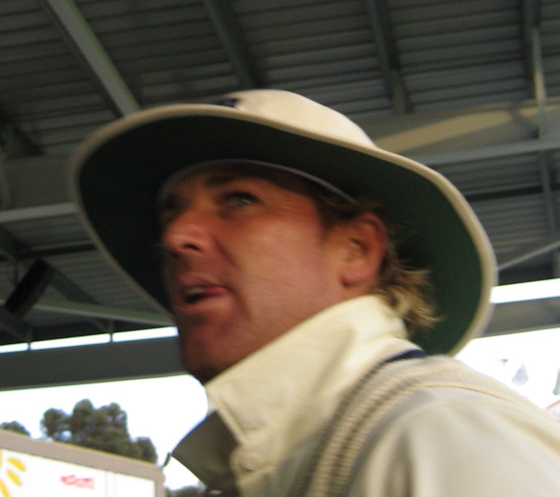 Shane Warne. At the WACA gound on 15/10/2006 Photo taken by me - user:Moondyne